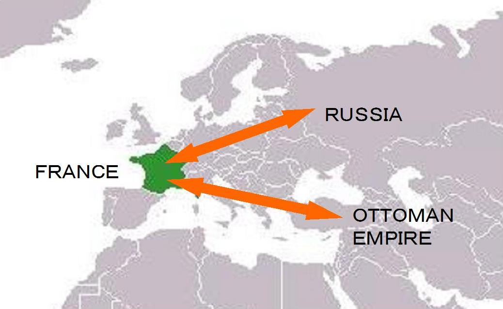 French_alliances_de_revers